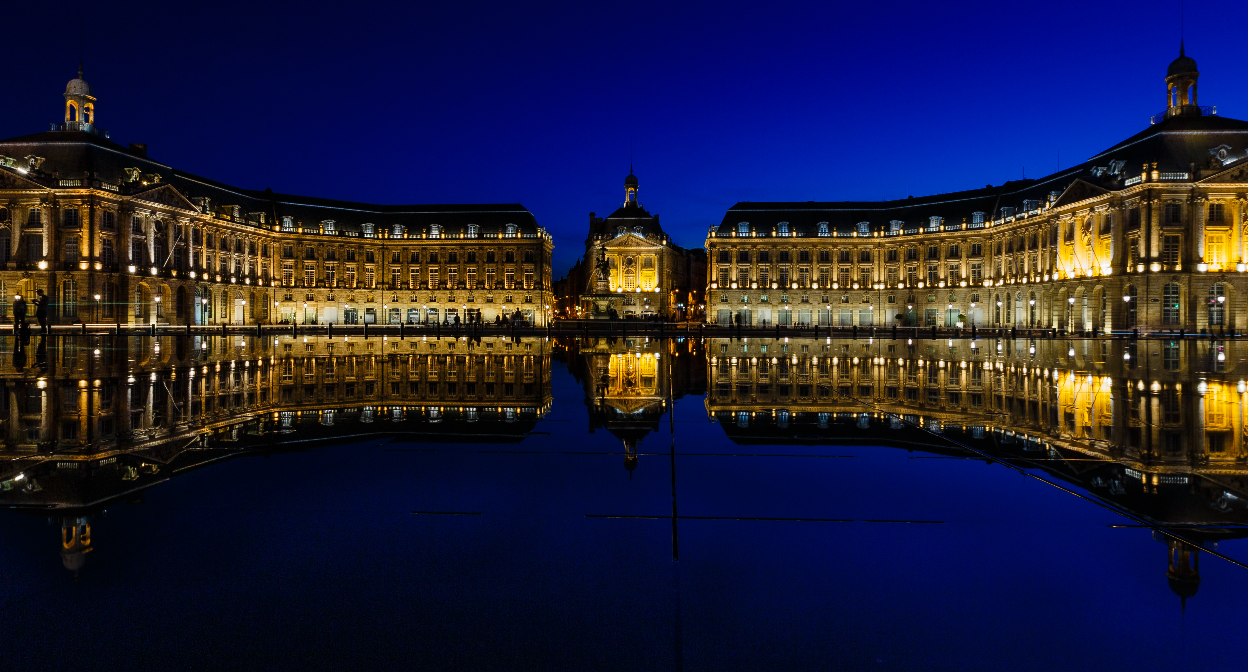 Picture taken at the blue hour